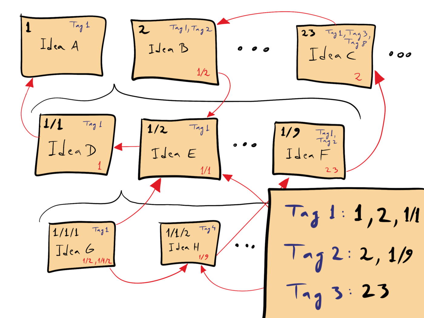 Explanation of the Zettelkasten knowledge management system